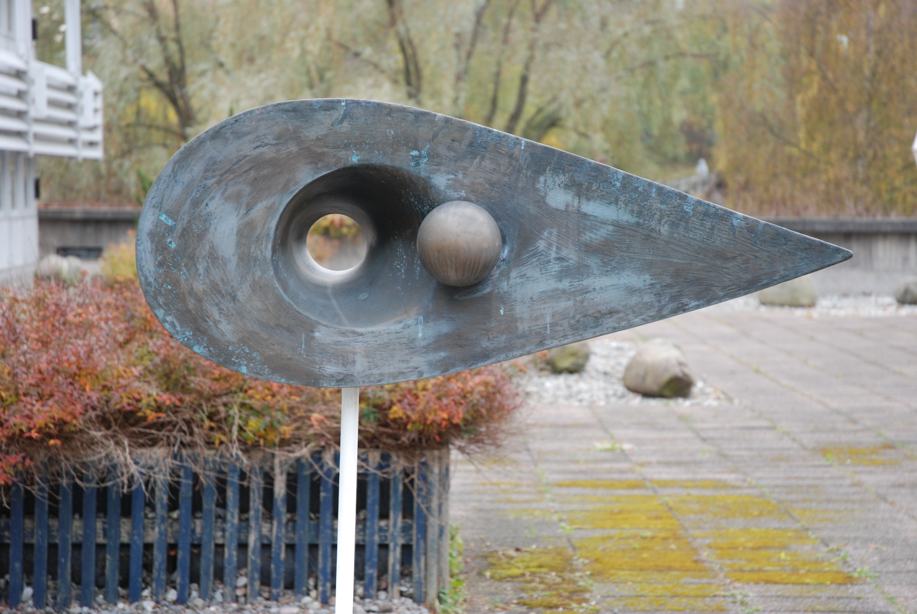 Lars-Erik Husberg´s Ögat (The Eye), outside Lidingö Town Hall, Sweden